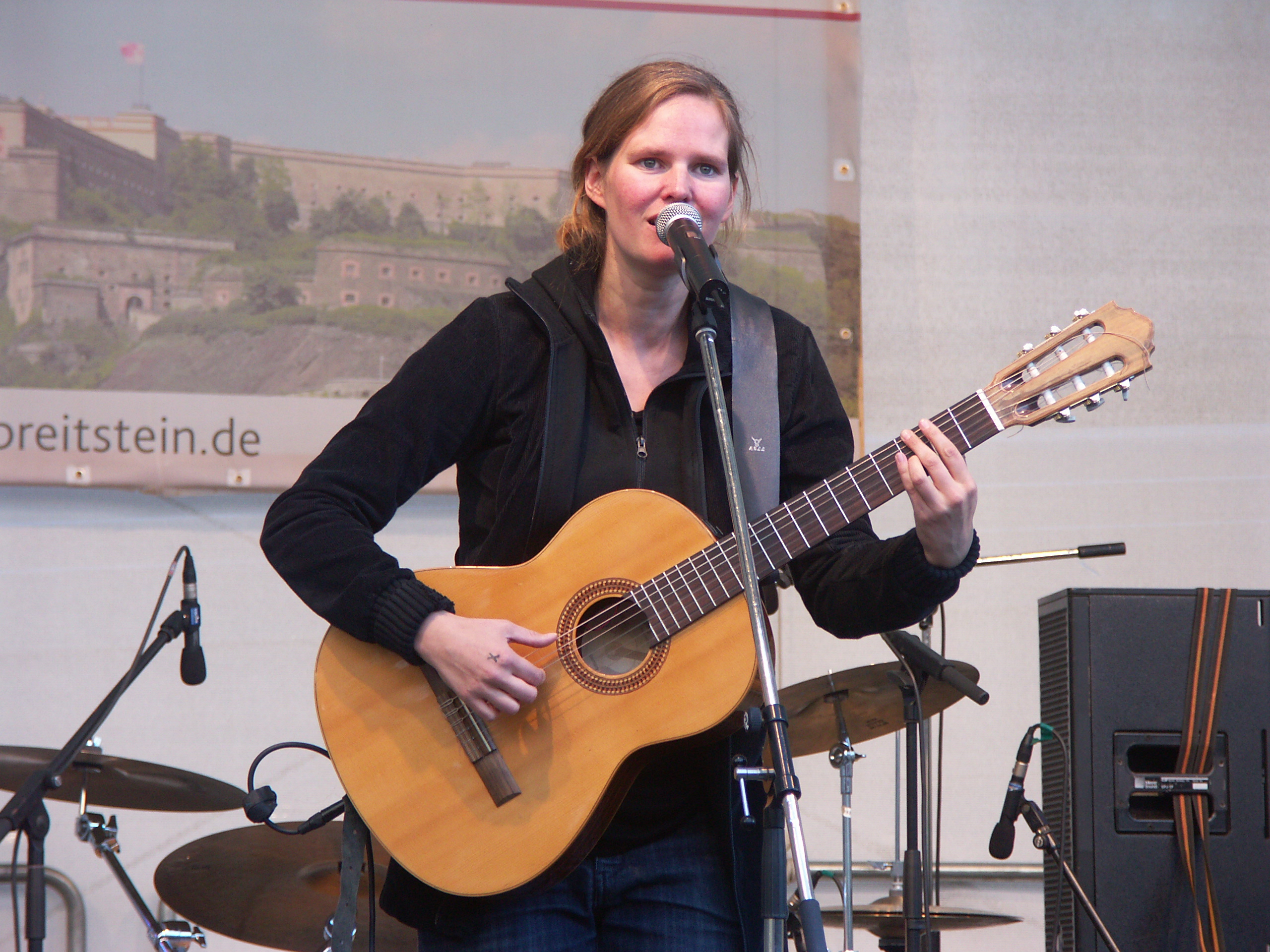 Dota Kehr performing at a concert with her band "Die Stadtpriraten", Oct. 16, 2011 in Koblenz (Germany) at the Ehrenbreitstein fortress